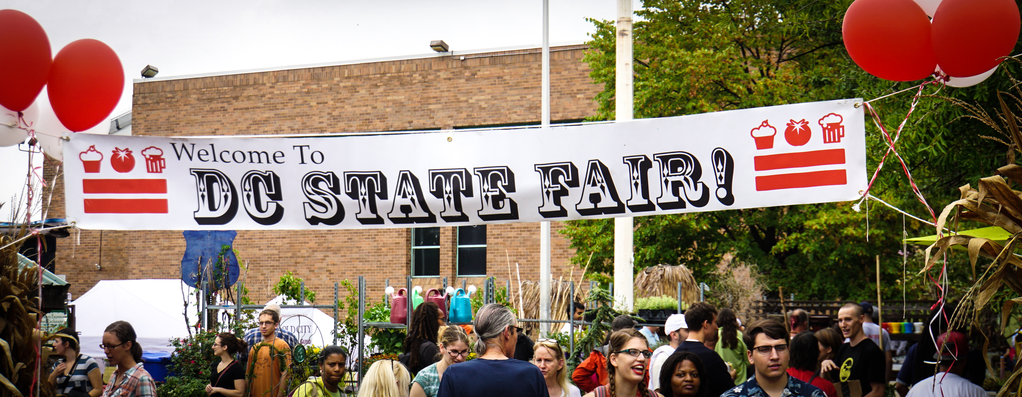 DC People and Places 08984